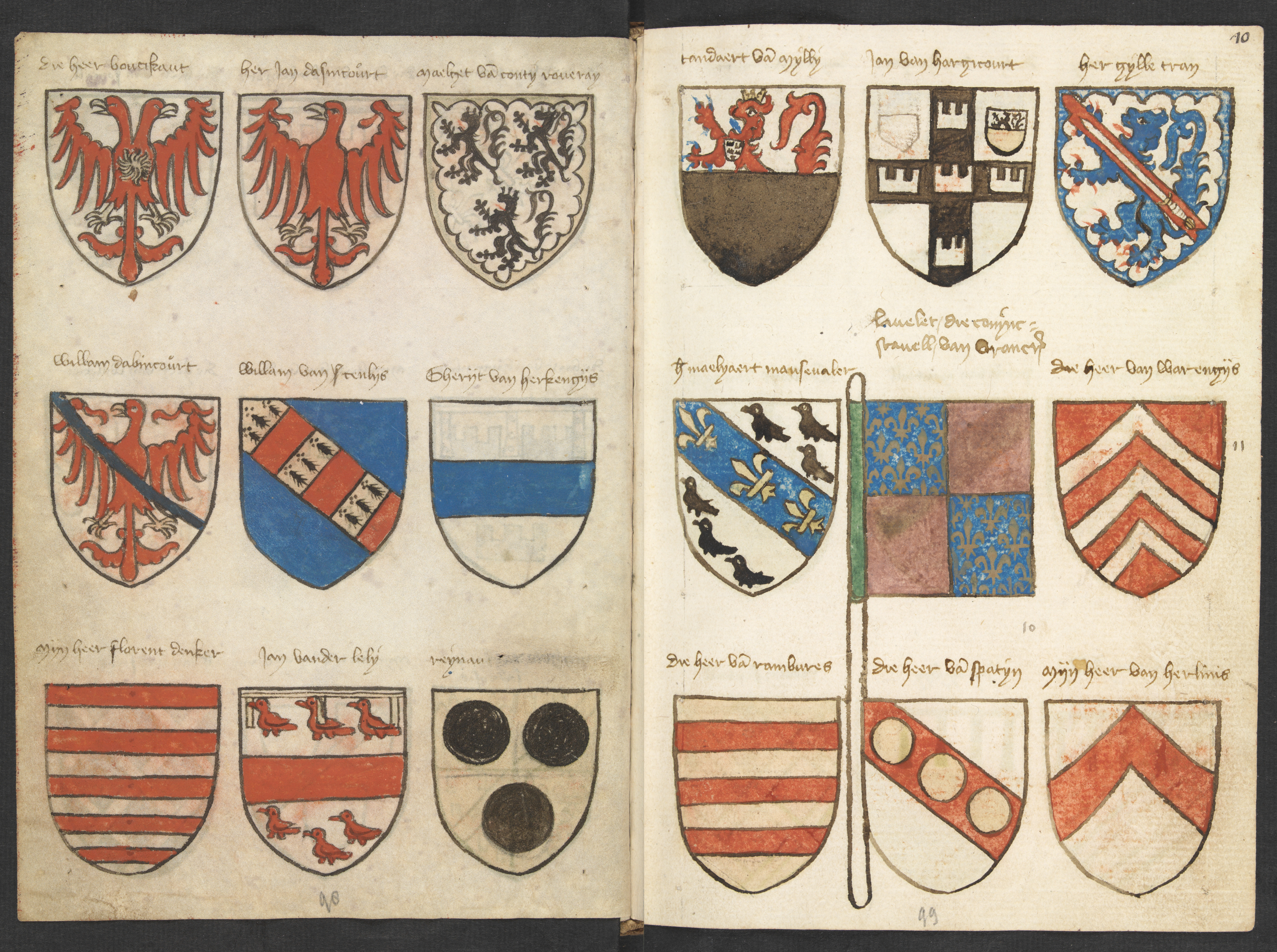 Lefthand side folio 009v; righthand side folio 010r from the Beyeren armorial / Wapenboek Beyeren